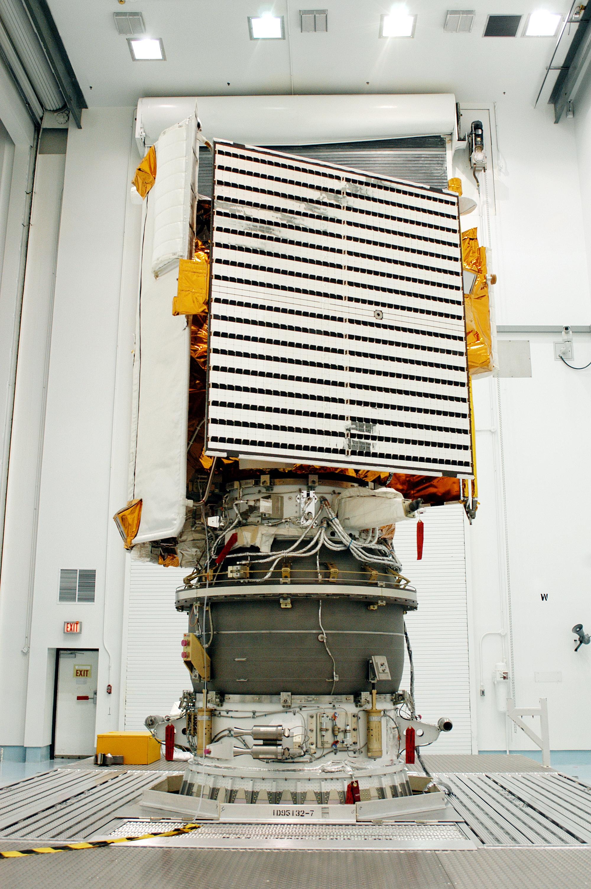 KENNEDY SPACE CENTER, FLA. - The MESSENGER (Mercury Surface, Space Environment, Geochemistry and Ranging) spacecraft, mated to the Delta II third stage Payload Assist Module, is on display at Astrotech Space Operations in Titusville, Fla., for the media. Spokespersons for the event are Dr. Robert Gold, MESSENGER payload manager with The Johns Hopkins University Applied Physics Laboratory (APL); and Ted Hartka, MESSENGER lead mechanical engineer, APL. MESSENGER is scheduled to launch Aug. 2 aboard a Boeing Delta II rocket from Pad 17-B, Cape Canaveral Air Force Station, Fla.